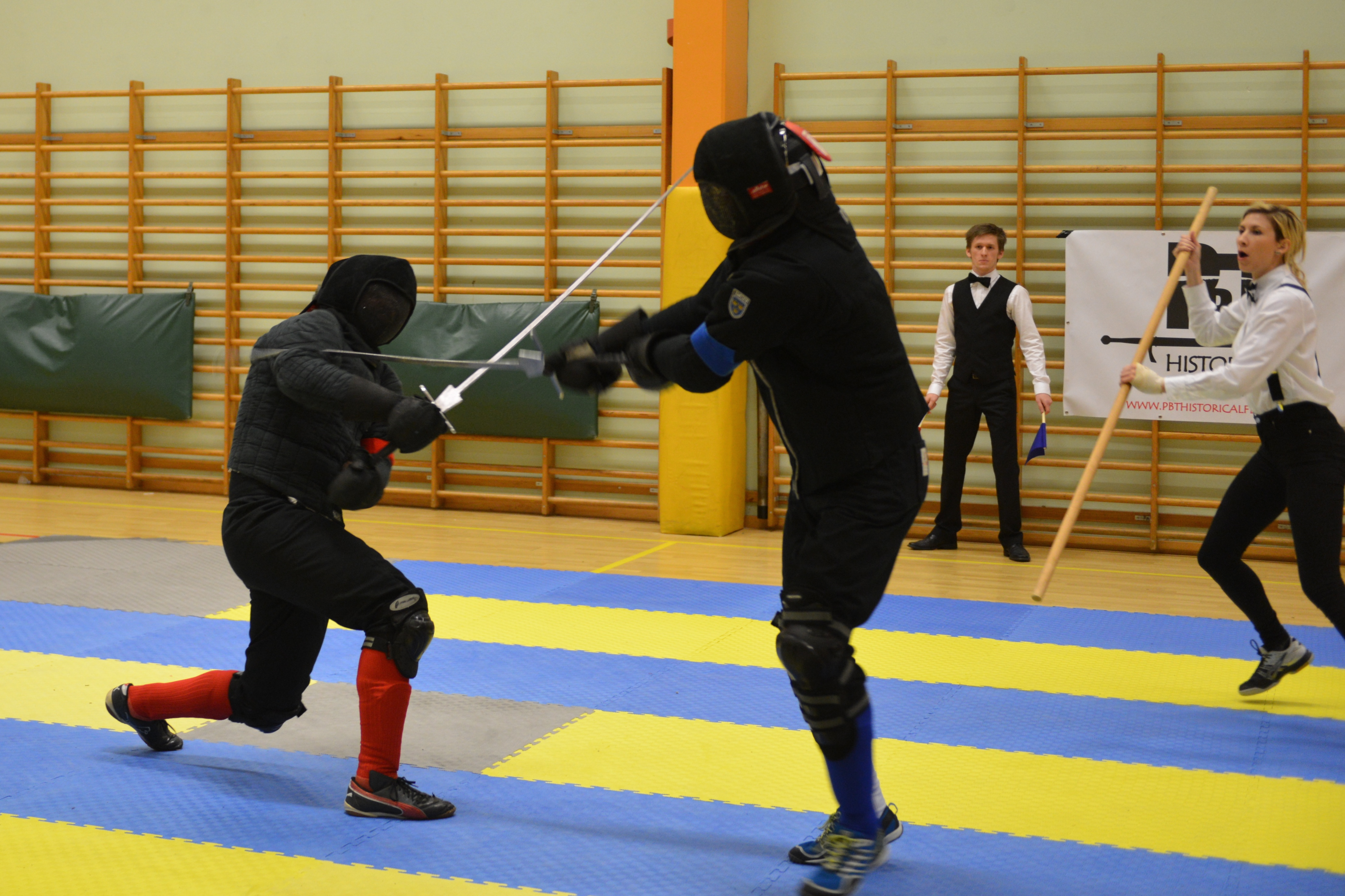 Image from Örebro Open 2014 hema tournament in Kristinehamn, Sweden.